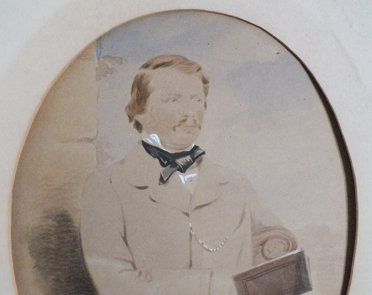 Photo of a watercolour of Lieutenant Willoughby